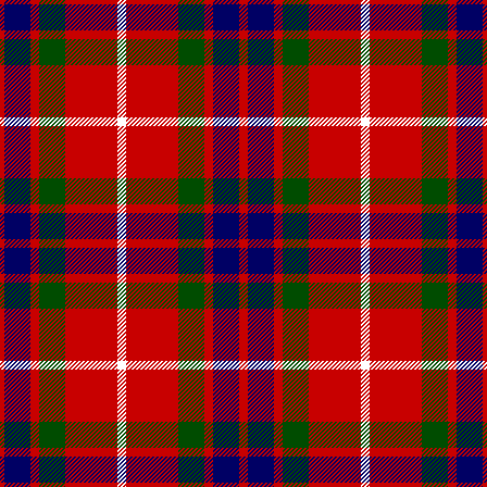 Fraser tartan, as published in the Vestiarium Scoticum. Modern thread count: R4 B12 R4 G12 R24 W4.